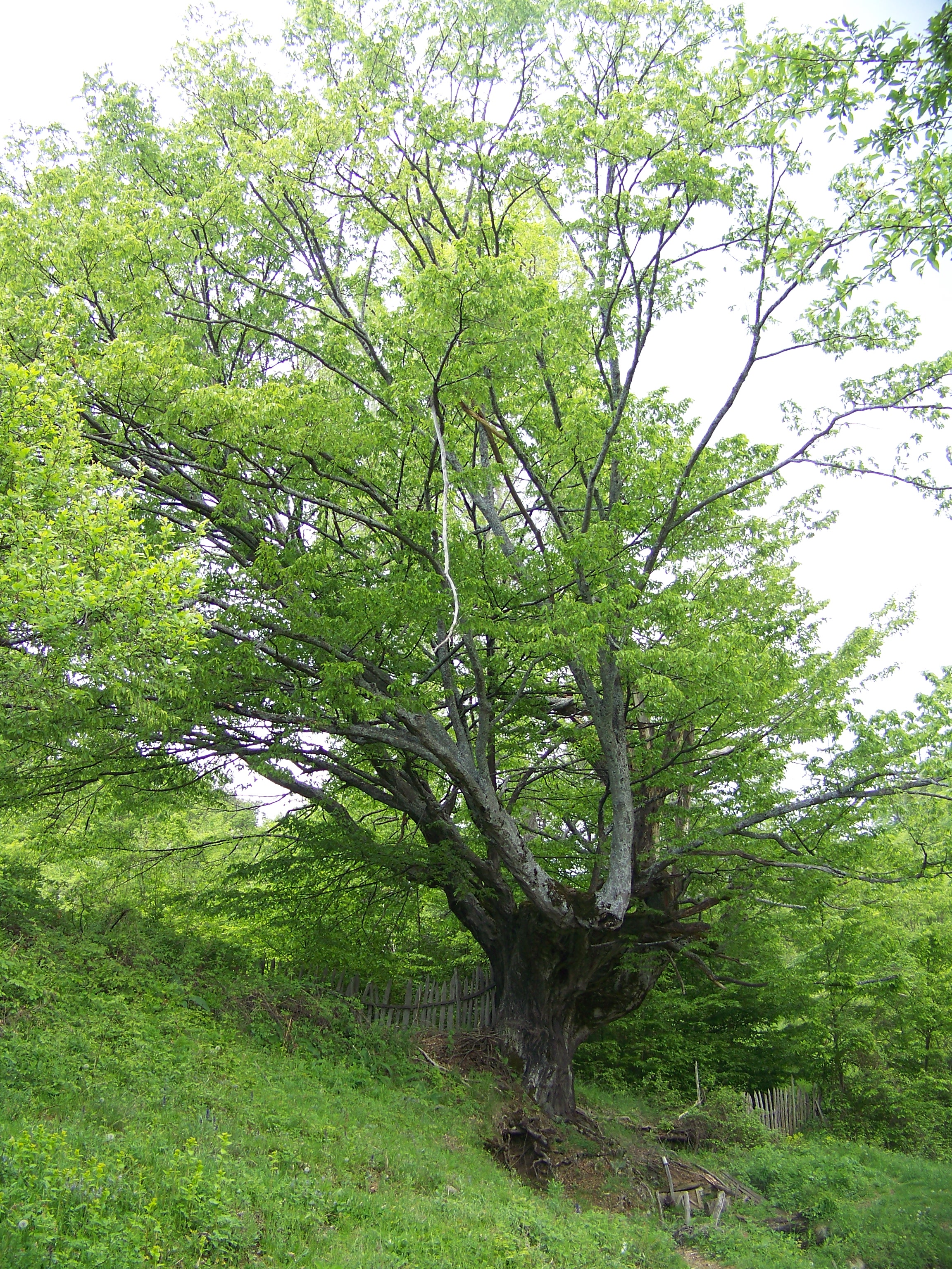 "Voden gaber" - water hornbeam, a 500 years old tree in Jastrebnik, Kocani, Republic Macedonia